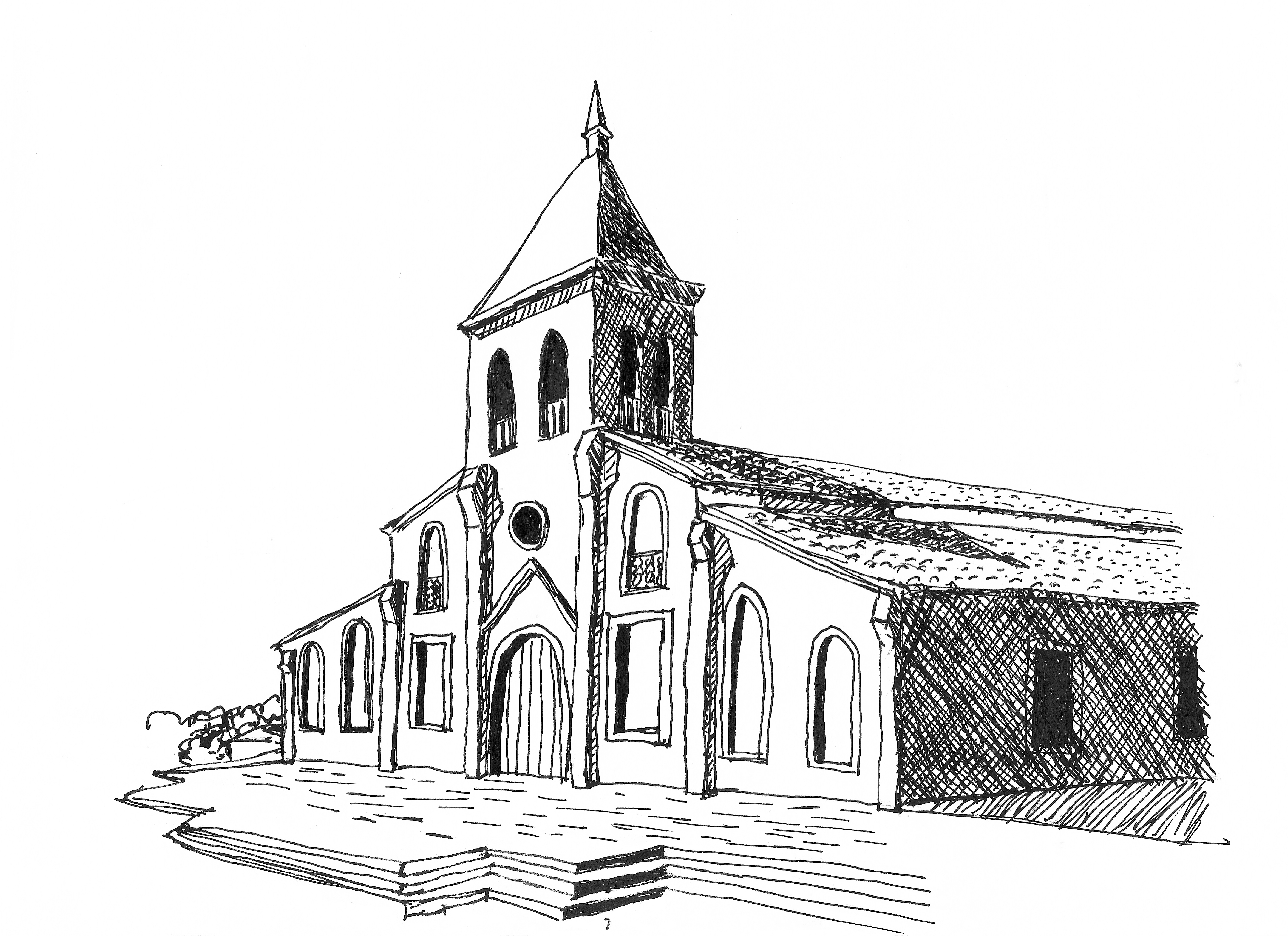 Drawing with india ink that show the church Our Lady of the Rosary and St. Benedict in the period between the 1920s and 1980s, when he presented the facade reformed, with neogotic features. Cuiabá, Mato Grosso, Brazil.